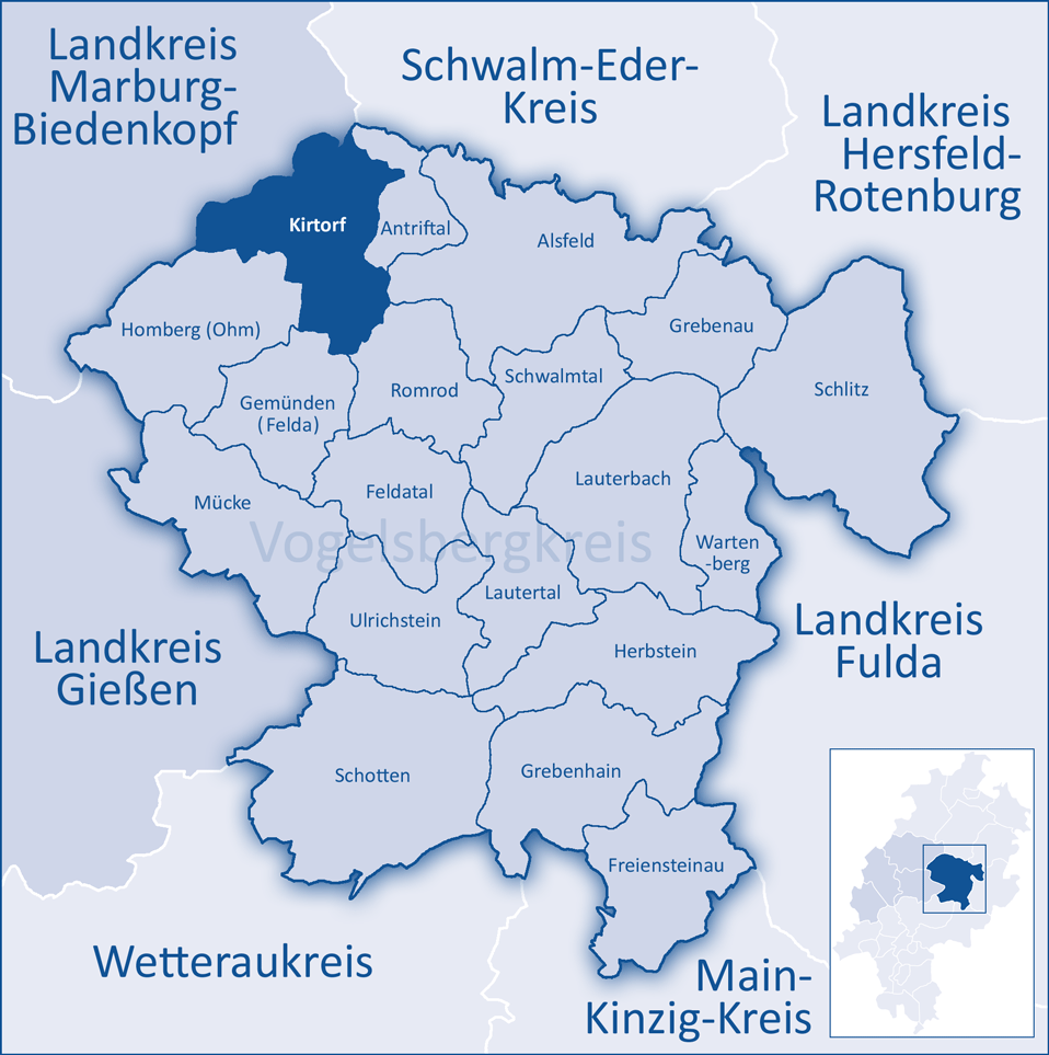 The map shows a district in the area of Vogelsbergkreis